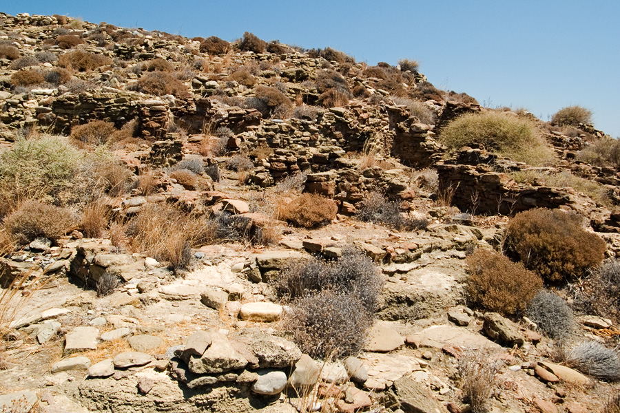 Fúrnu Kórfi, minoan settlement near Myrtos, Crete/Greece own photo, aug 24, 2006 photo: nomo/michael hoefner